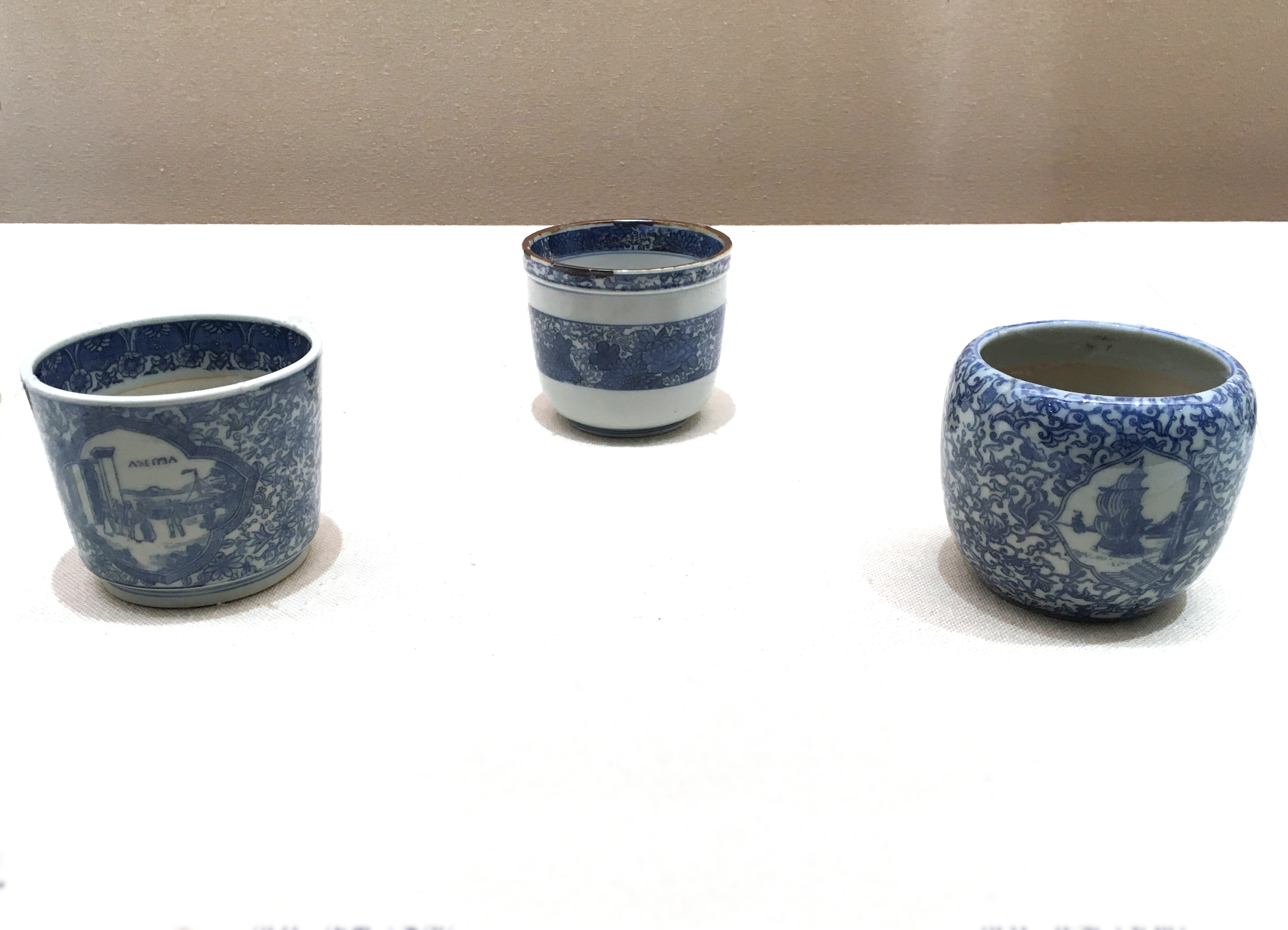 Containers porcelain, decoration transfer-printed in blue under a transparent glaze Kawana ware, Owari (Aichi) middle of 19th century; Edo period Nagoya City Museum (#208, #209, #210)